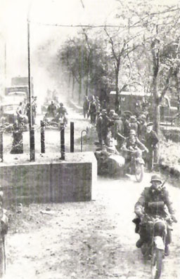 German motorized troops cross over the Luxembourg border on 10 May, 1940.